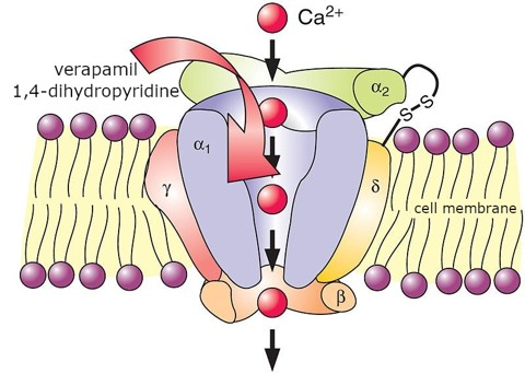 A diagram of an L-type calcium channel showing the subunits and some known chemicals that inhibit the channel